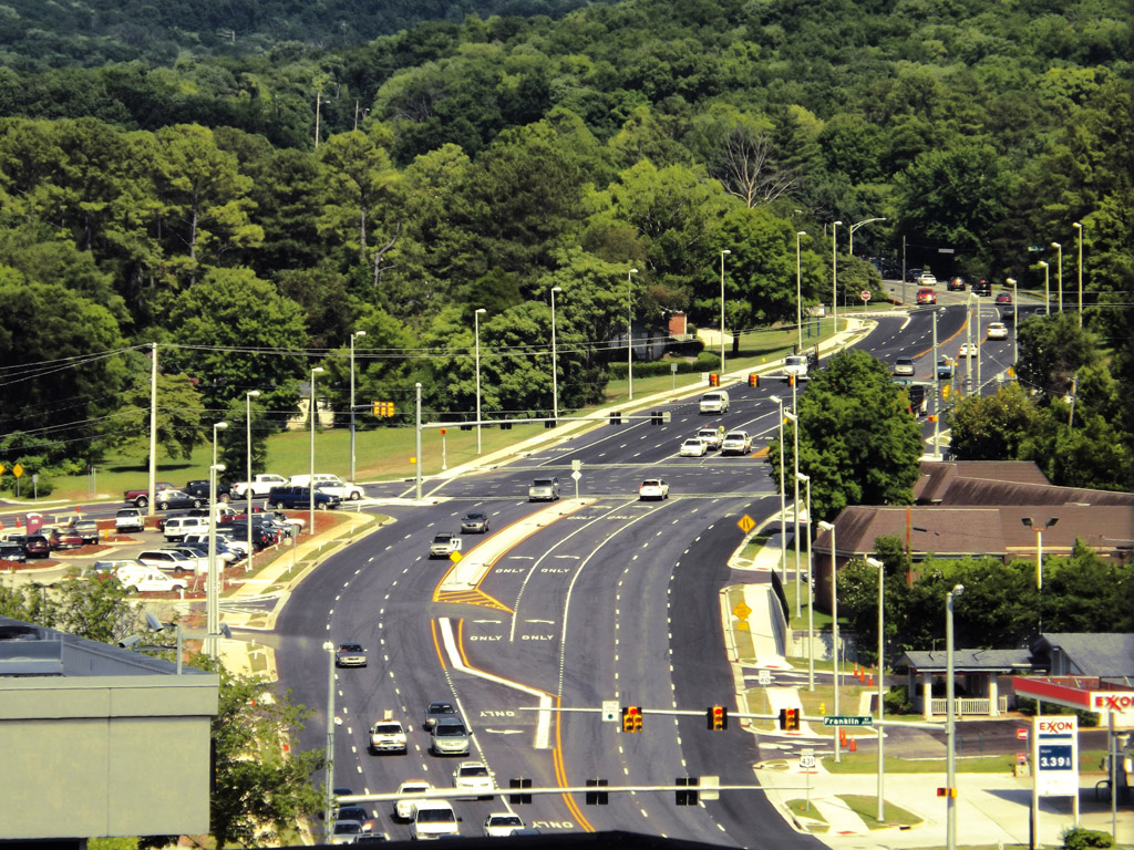 Governors Drive as it starts to head up Monte Sano Mountain in Huntsville, Alabama. Photograph: Larry Wilbourn 5 Jun 2012